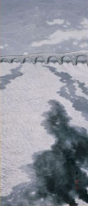 Title "Bright Moon Night"